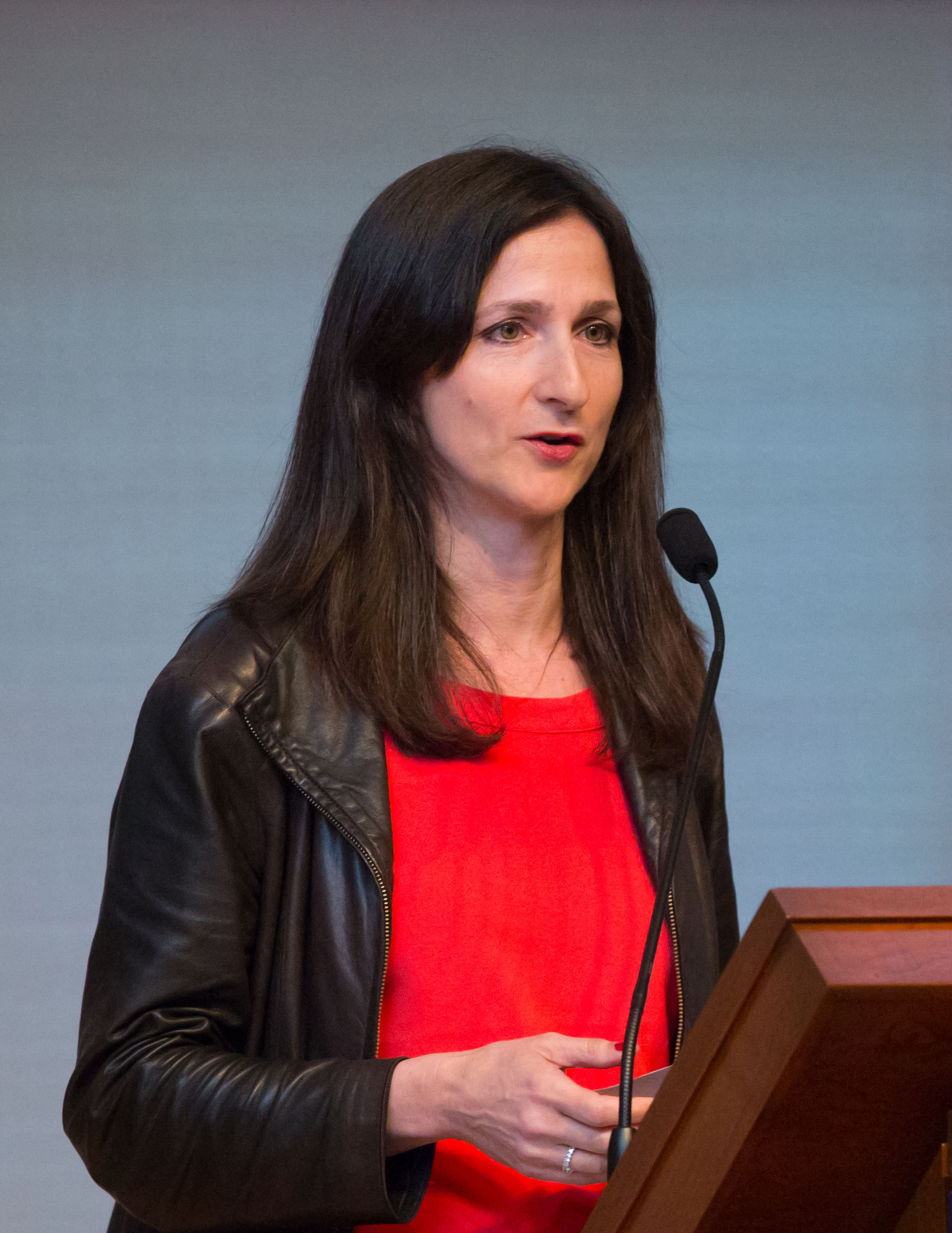 Photograph of astronomer and planetary scientist Sara Seager, taken at the 2016 Gordon Cain Conference, "Life in the Universe: Past and Present", 26 May 2016 at the Chemical Heritage Foundation, Philadelphia, PA, USA.